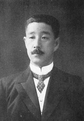 Hisato Nakagawa